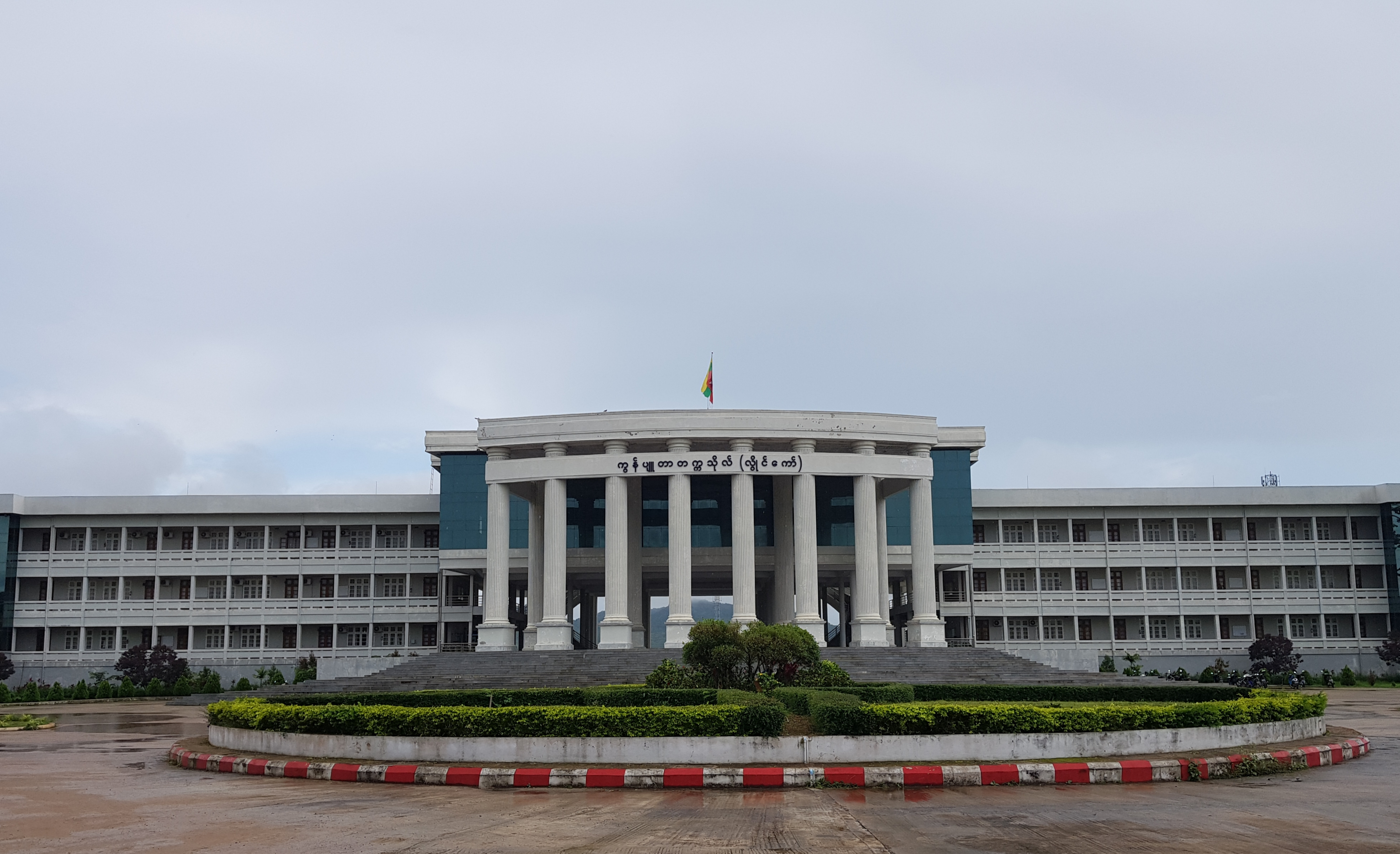 University of Computer Studies, Loikaw